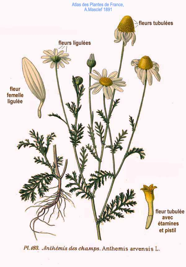 Anthemis arvensis L